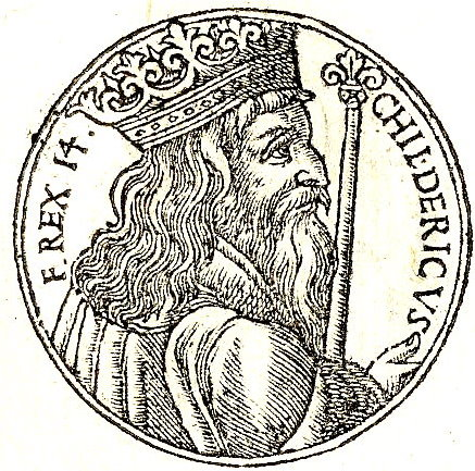 Childeric II was the king of Austrasia from 662 and of Neustria and Burgundy from 673 until his death, making him sole King of the Franks for the final two years of his life.